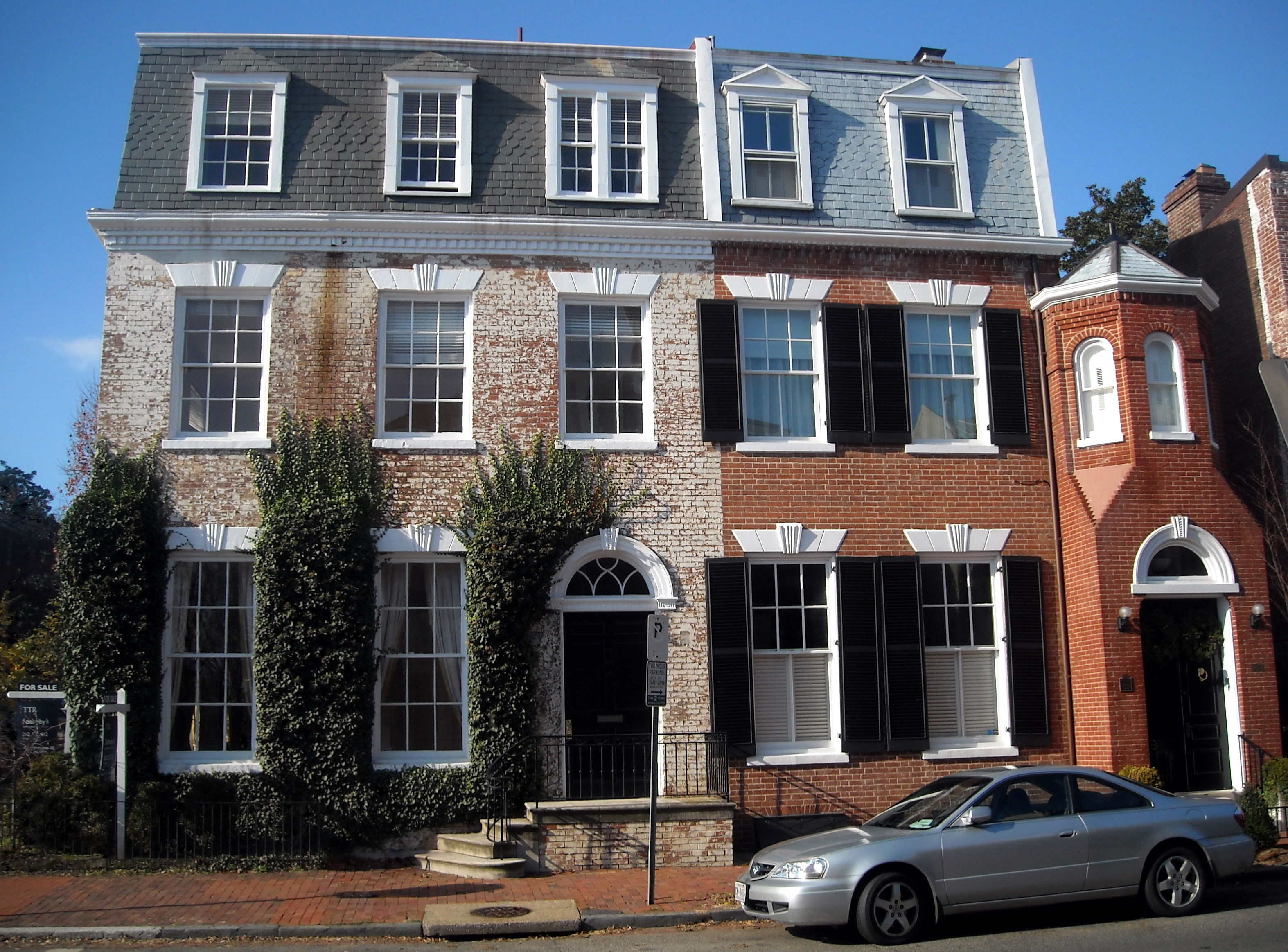 Semi-detached homes, located at 1300 (left) and 1302 (right) 30th Street, N.W., (intersection of 30th and N) in the Georgetown neighborhood of Washington, D.C. The buildings are designated as contributing properties to the Georgetown Historic District, a National Historic Landmark listed on the National Register of Historic Places in 1967. 1300 30th Street, N.W., also known as the Beall House, was built in 1811. Previous occupants include: Dr. Grafton Tyler, former dean of the National Medical College (predecessor to The George Washington University Medical School) and a Confederate sympathizer. Abe Fortas, former Associate Justice of the U.S. Supreme Court. Amory Houghton, former executive at Corning Incorporated and former U.S. ambassador to France. Sherlock Davis, former government attorney with the Economic Cooperation Administration and former general counsel for the U.S. Cuban Sugar Council, a lobbying firm. John Newton Mitchell, the U.S. Attorney General under President Richard Nixon and the only U.S. Attorney General to serve a prison sentence. 1302 30th Street, N.W., an example of Georgian Revival architecture, was built in 1887.